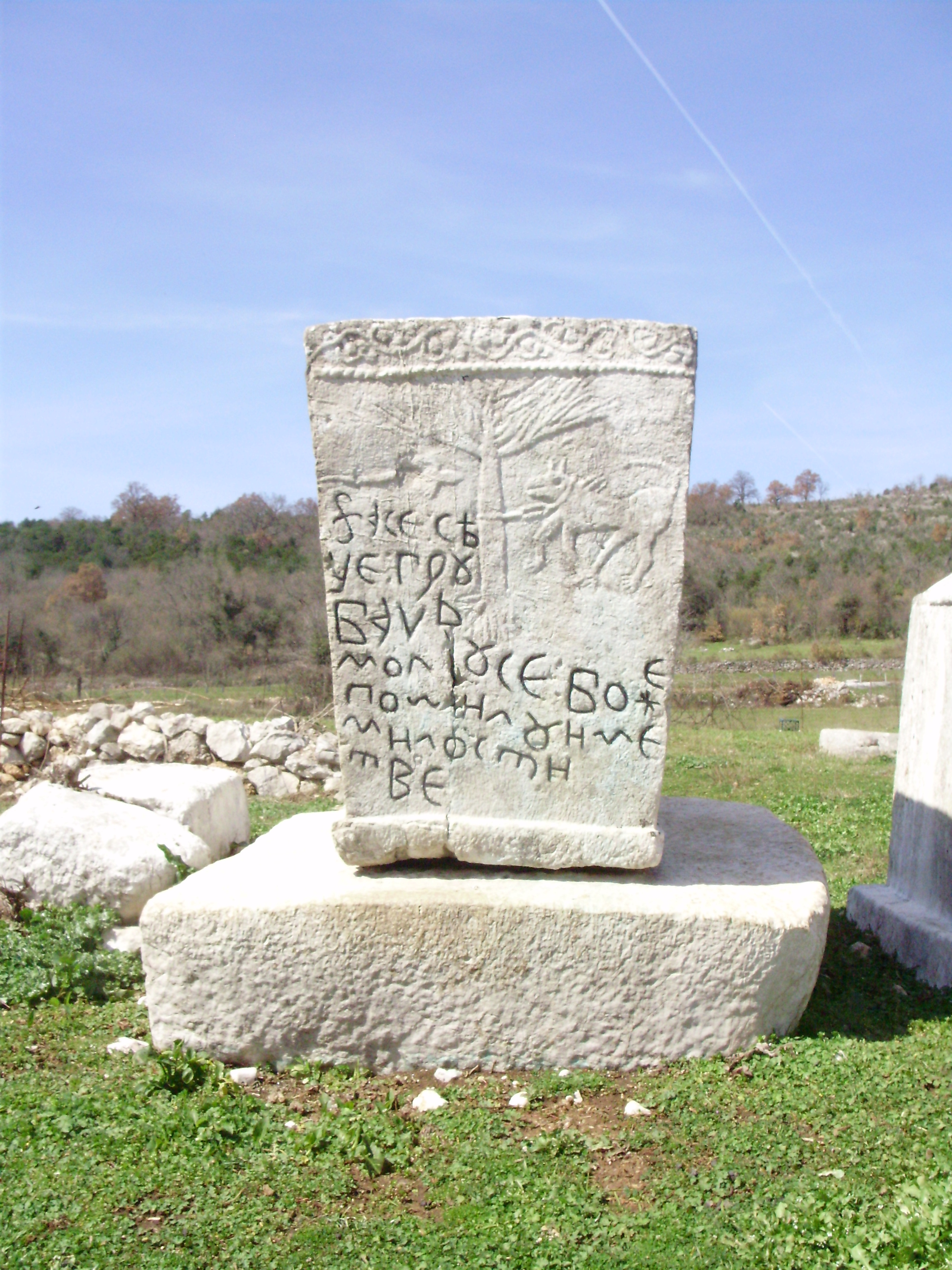 Medieval tombstone